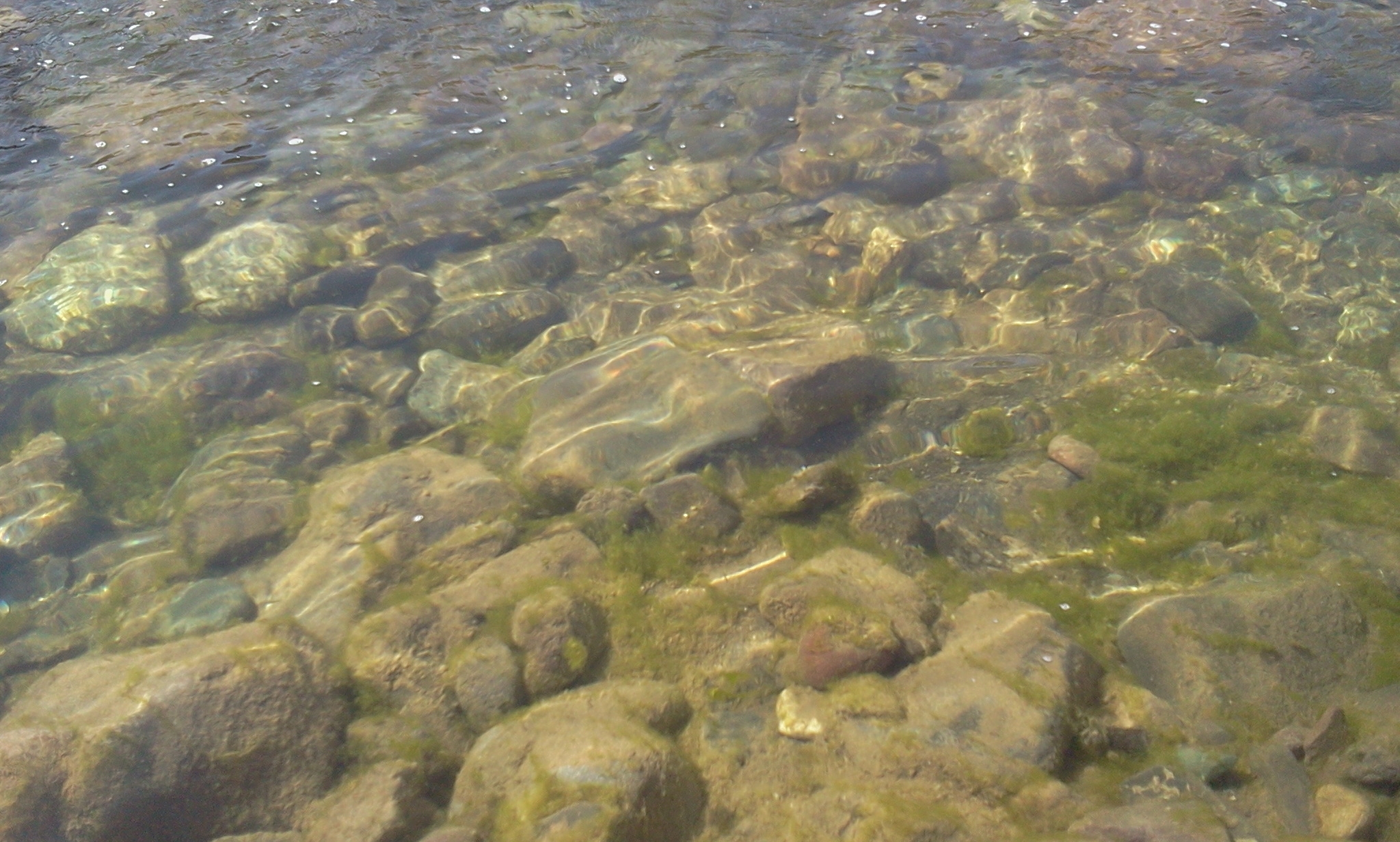 Rafsanjan